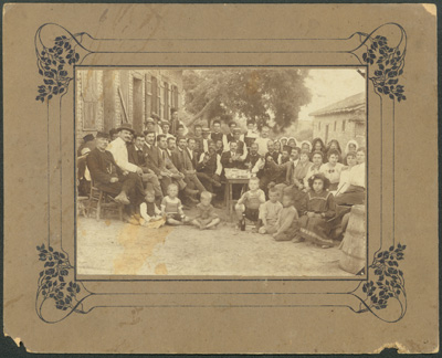 Rusi Slavov in Dervent from IMARO